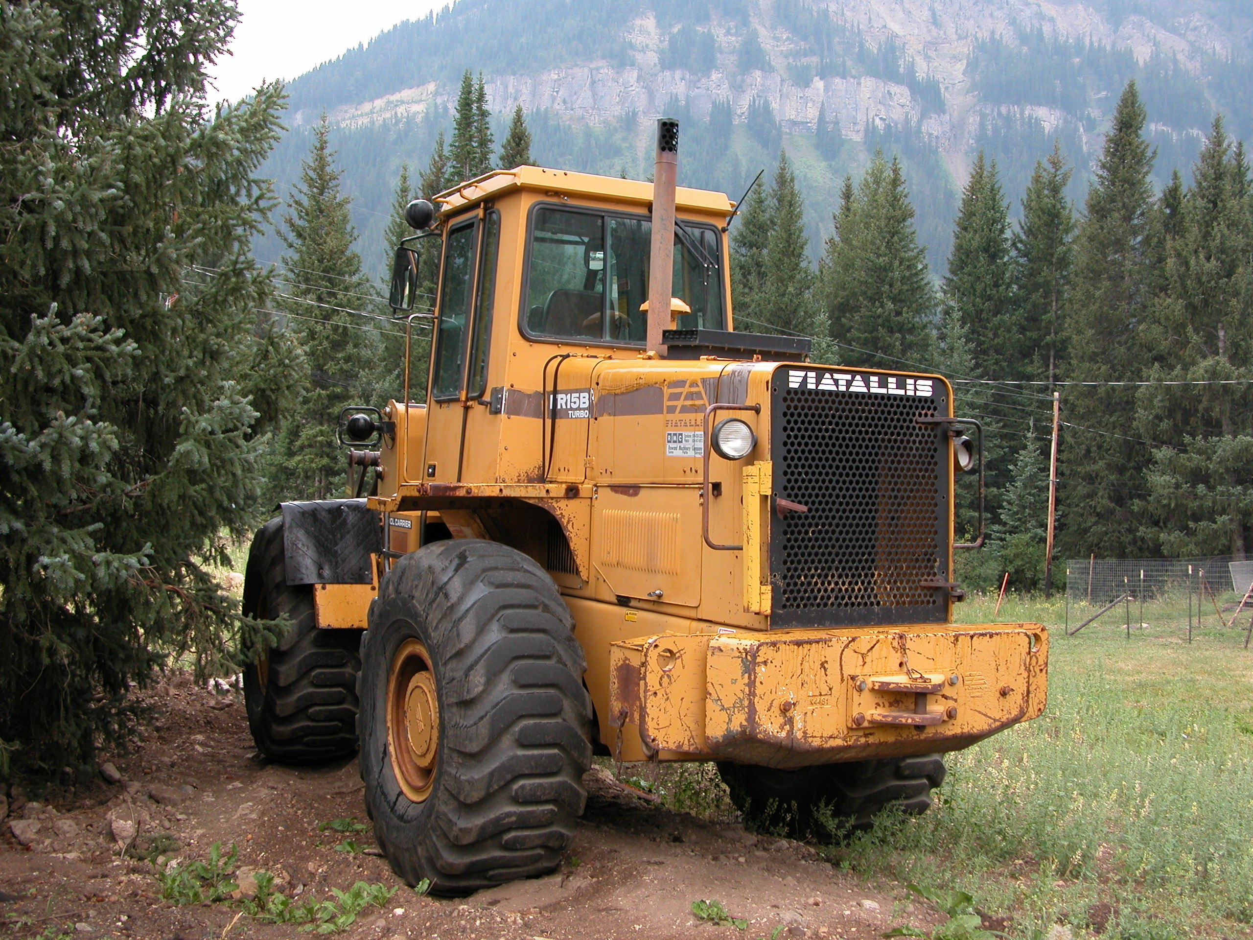 Fiatallis FR15B loader in Cooke City, Montana.